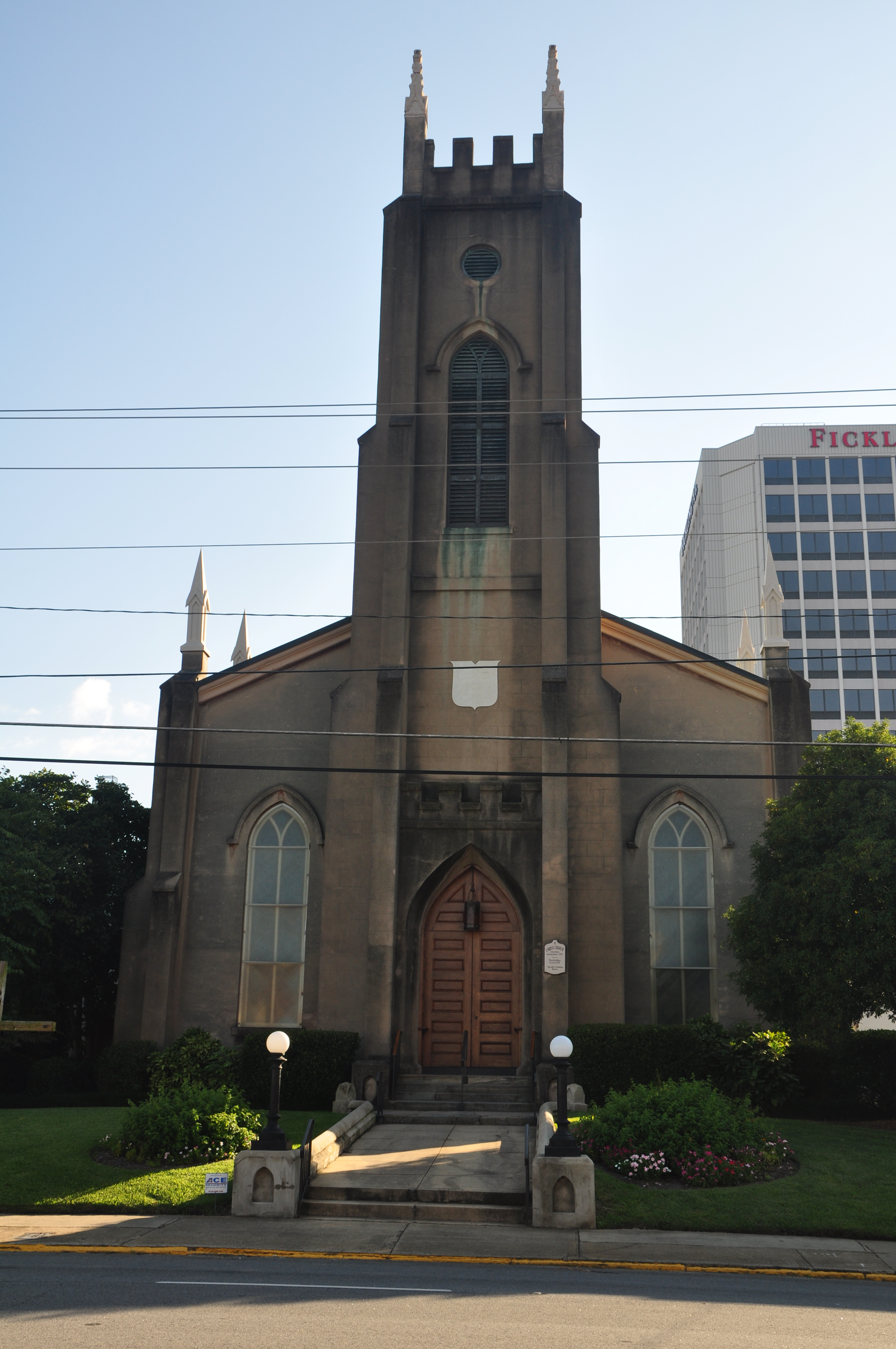 Christ Episcopal Church, 538-566 Walnut St. Macon